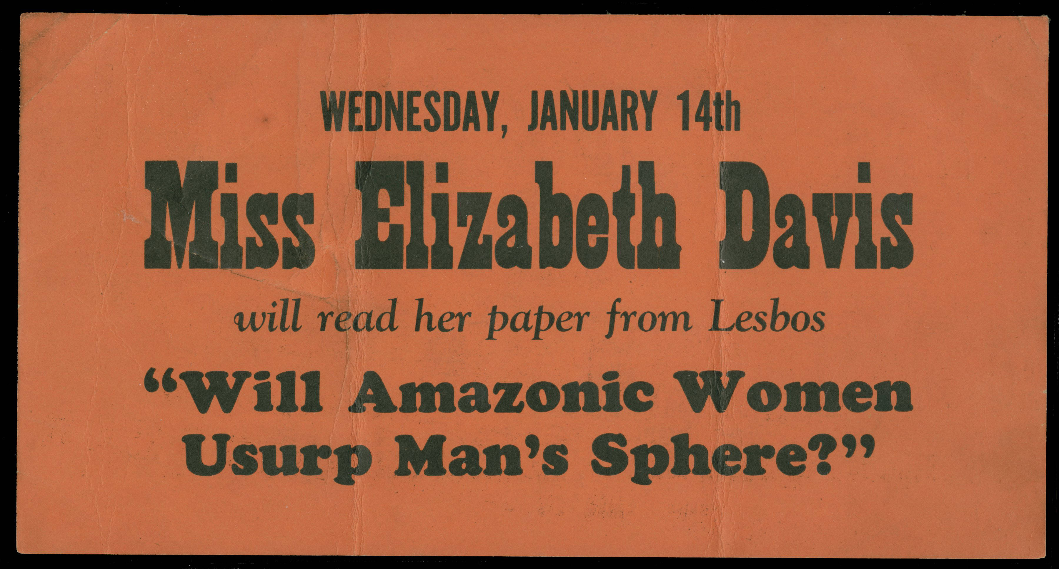 Recto